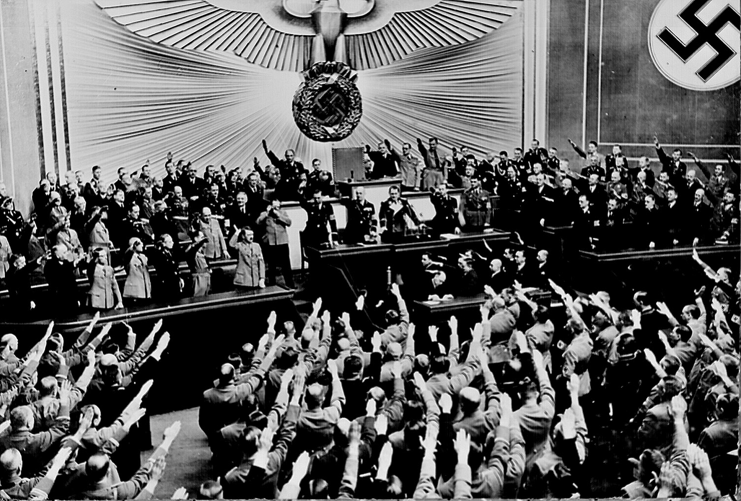 Hitler accepts the ovation of the Reichstag after announcing the "peaceful" acquisition of Austria. It set the stage to annex the Czechoslovakian Sudetenland, largely inhabited by a German-speaking population. Berlin, March 1938. A historic photograph from the Records of the U.S. Office of War Information, 1926 - 1951; Series: Photographs of Allied and Axis Personalities and Activities, 1942 - 1945. From the U.S. National Archives and Records materials: National Archives Identifier: 535792 Local Identifier: 208-N-39843